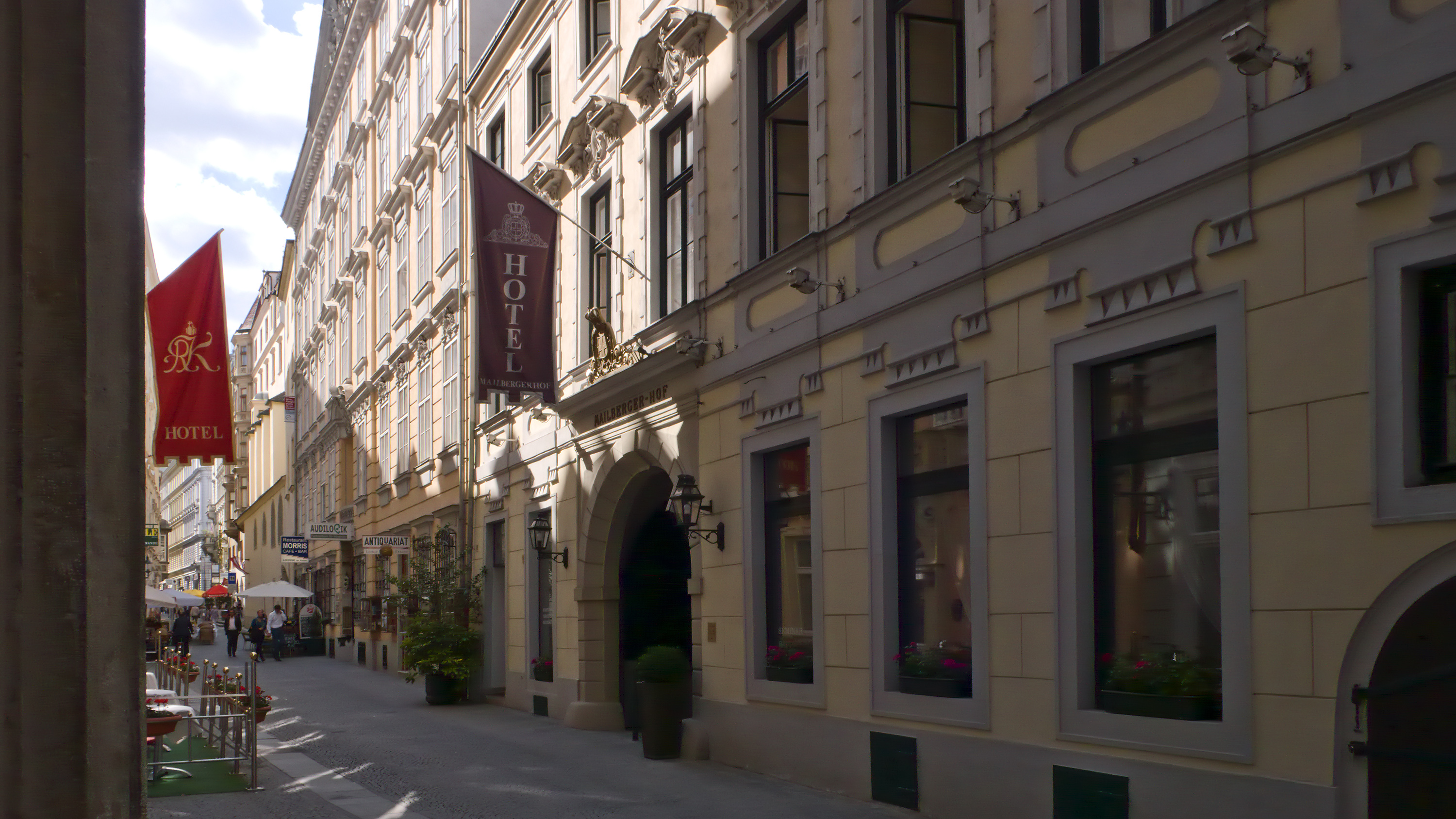 Annagasse in Vienna Inner City, Haus Nr.7 Hotel Mailbergerhof